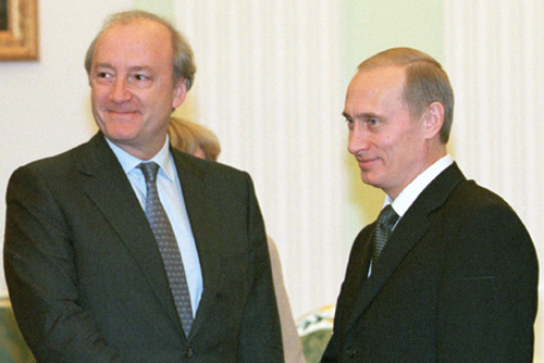 THE KREMLIN, MOSCOW. President Putin and French Foreign Minister Hubert Vedrine.